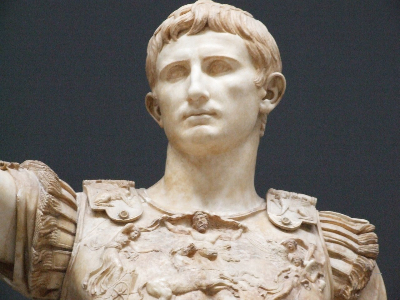 roma rome lazio vatican vaticano musei museum italia italy nature sea beach sun summer town city light landscape free europe europa eu wallpaper michael castielli resolution vacation holiday travel flight Creative Commons CC0 CC Zero panoramio flickr google